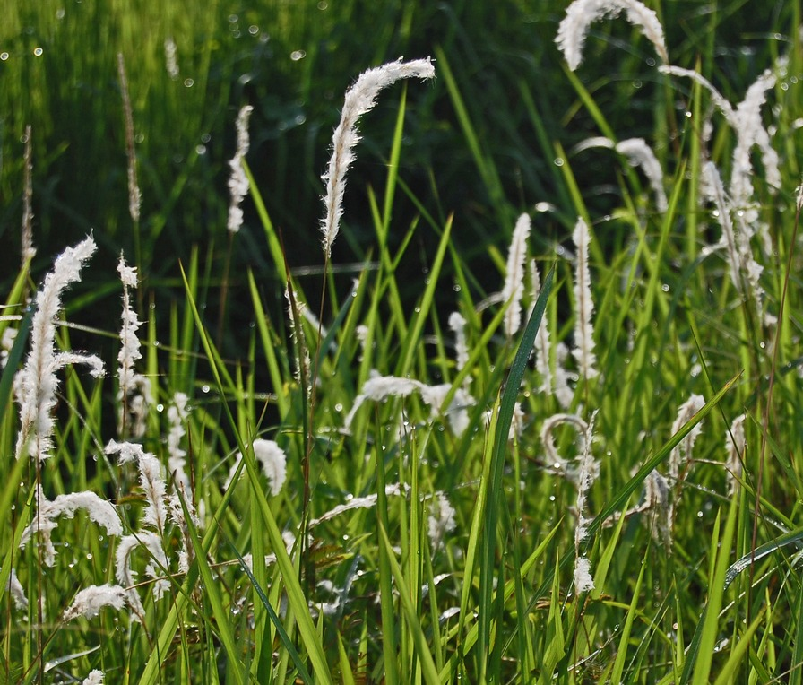 Imperata cylindrica with spikes. Bogor, West Java, Indonesia.